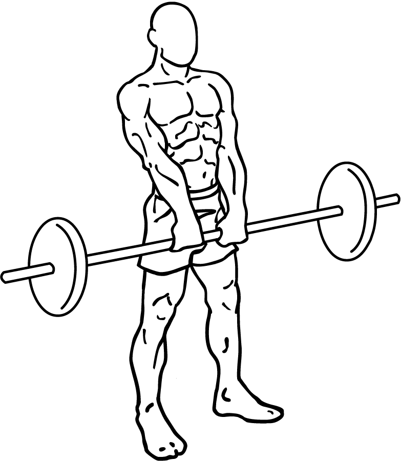 an exercise of shoulders